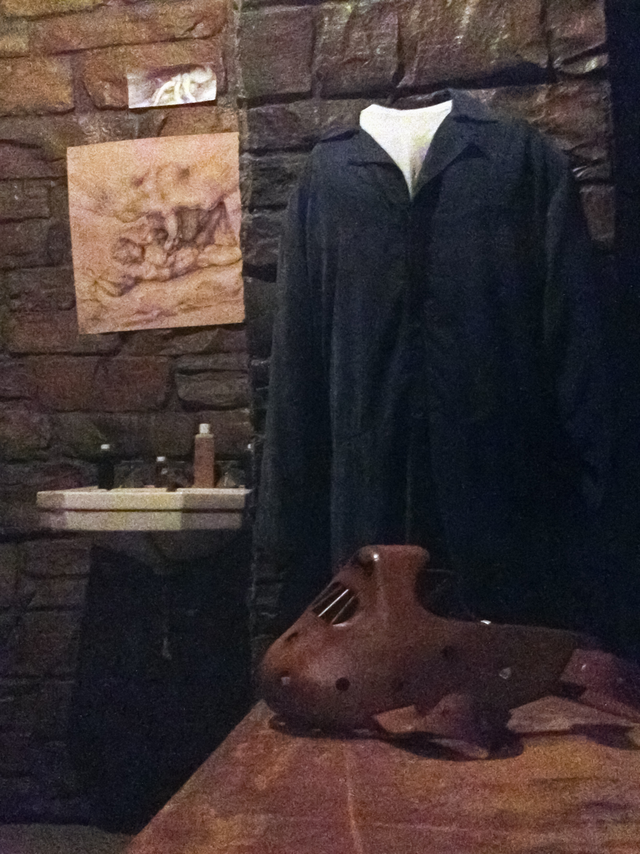 Reproduction of the Hannibal Lecter's prison cell from the film The Silence of the Lambs, Dungeon of Doom exhibition, The Hollywood Museum, 1660 N. Highland Ave (at Hollywood Blvd), Hollywood, California, USA.